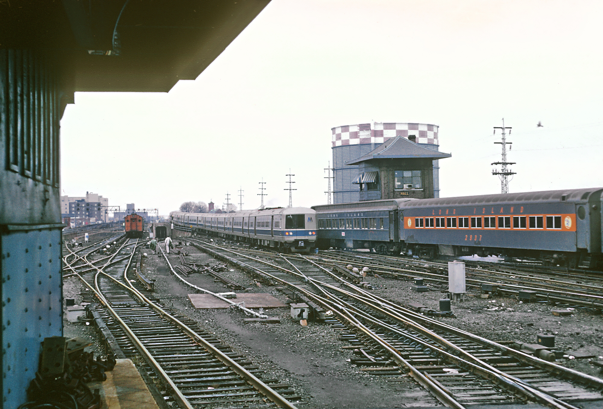 A Roger Puta Photograph